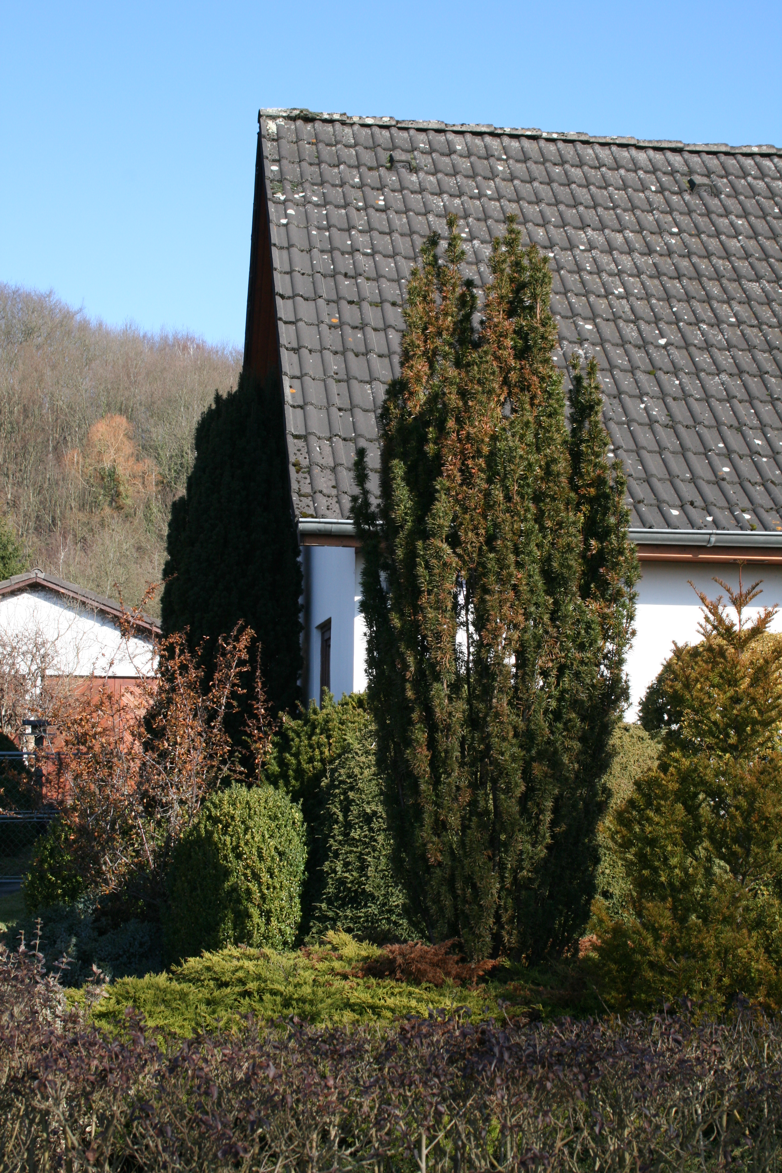 House Rothenhauschaussee 217 in Hamburg-Bergedorf. Ferdinand Buhk, member of resistance against Nazism, lived in this house. A Stolperstein is placed in front of the house